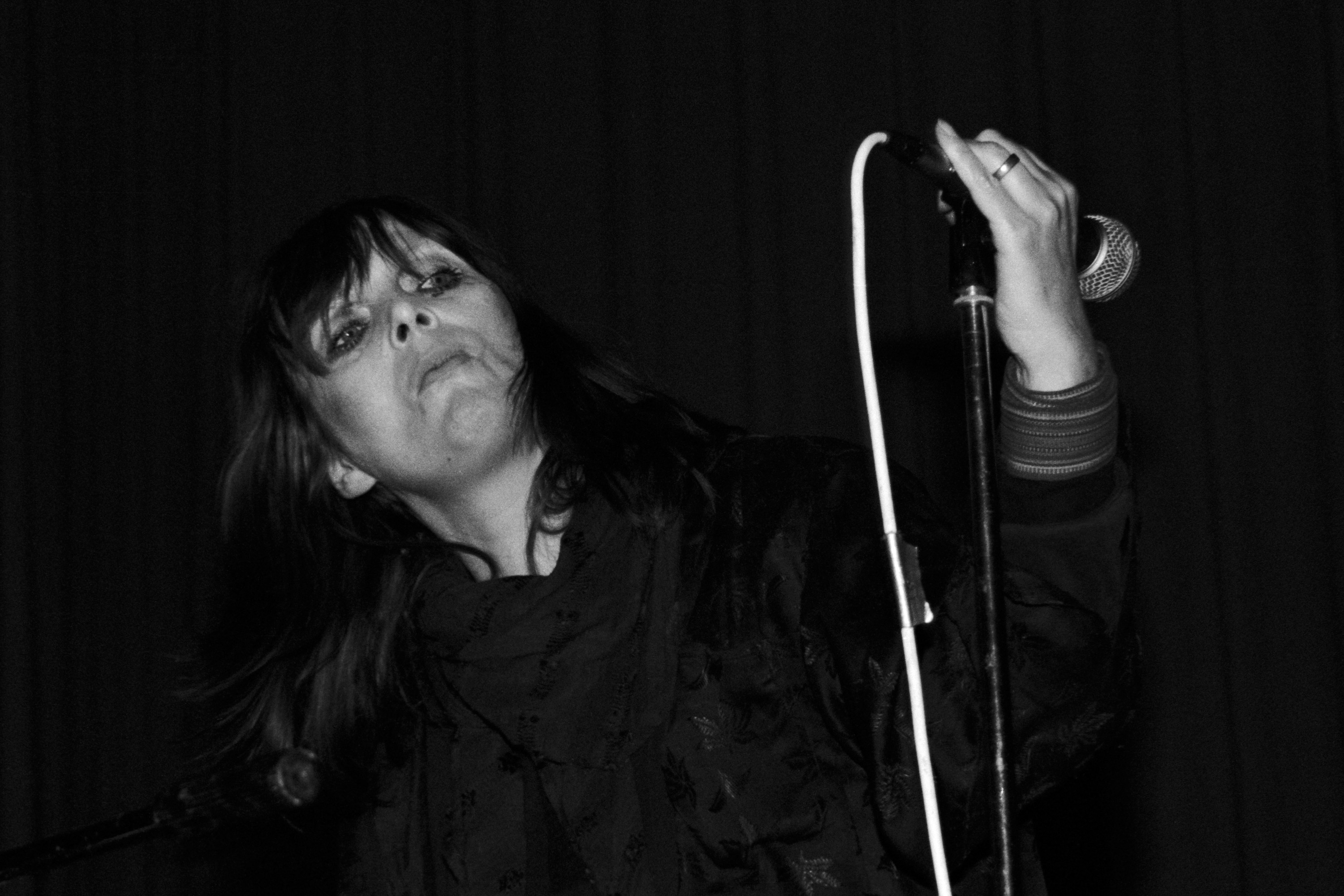 Nico at Lampeter University - November 1985